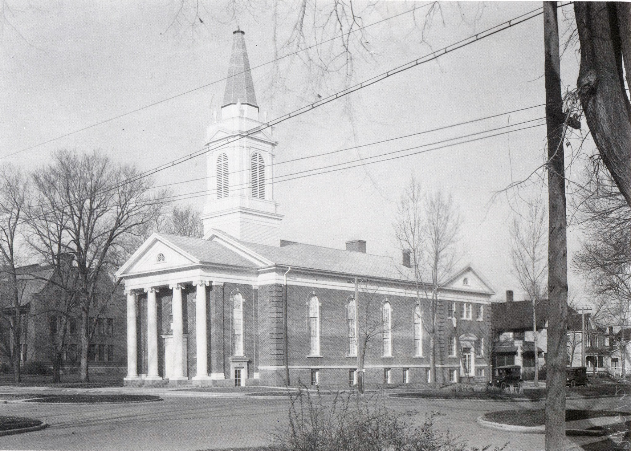 The First Congregationalist Church in Geneseo, Illinois, circa 1910